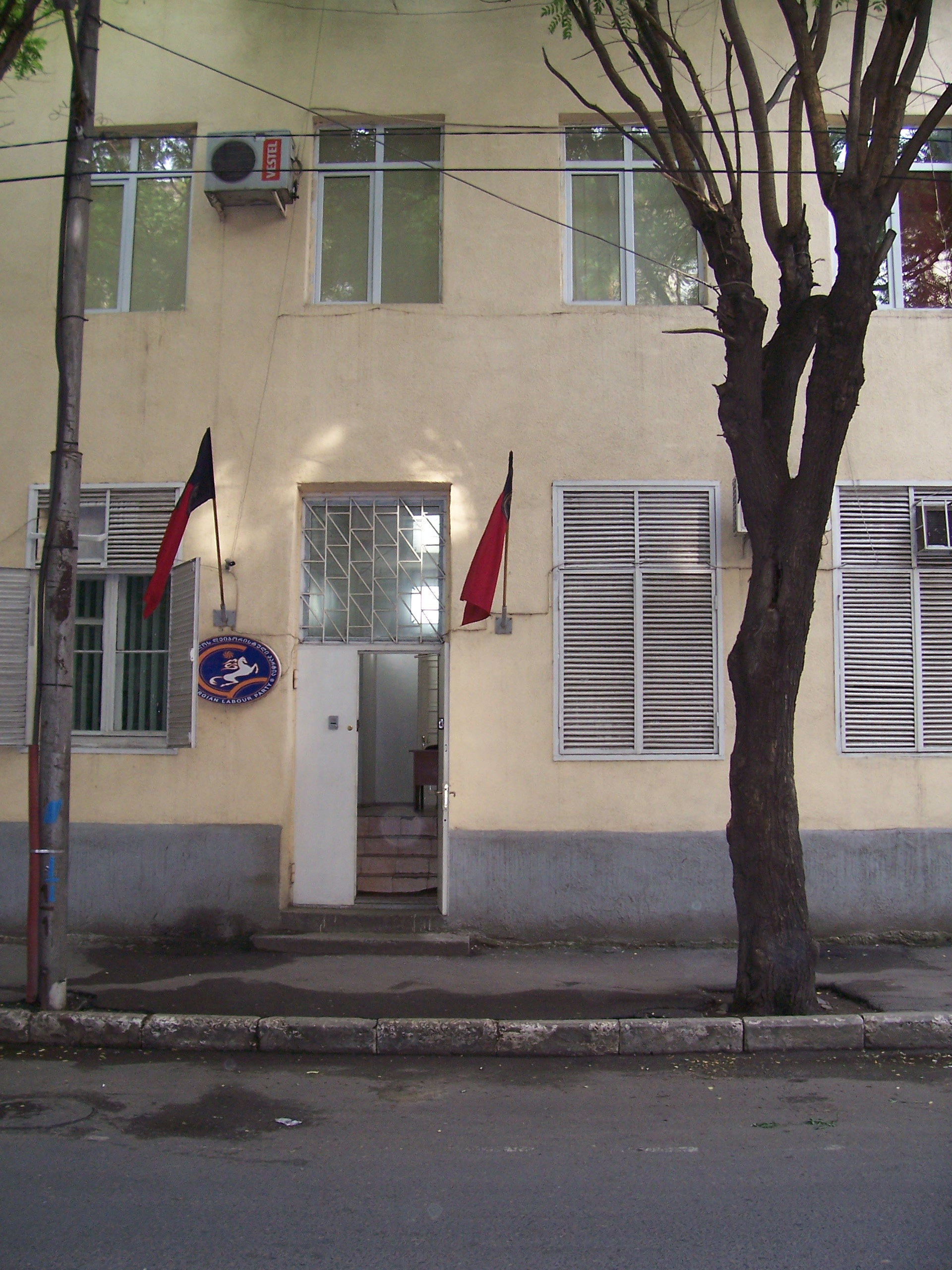 The headquarter of the Georgian Labour Party in Tbilisi.